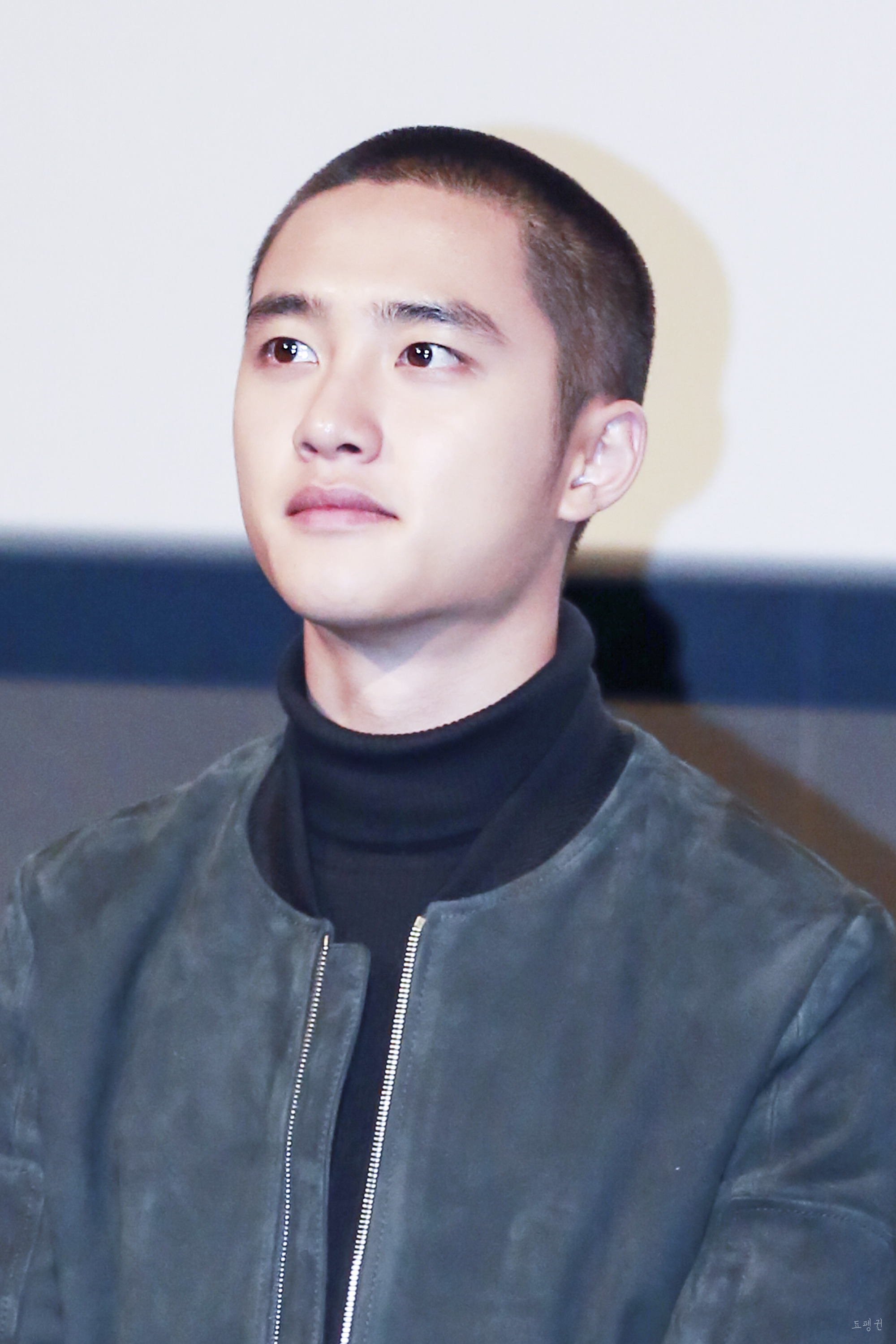 D.O at the film premiere of Room No.7 on November 18, 2017.